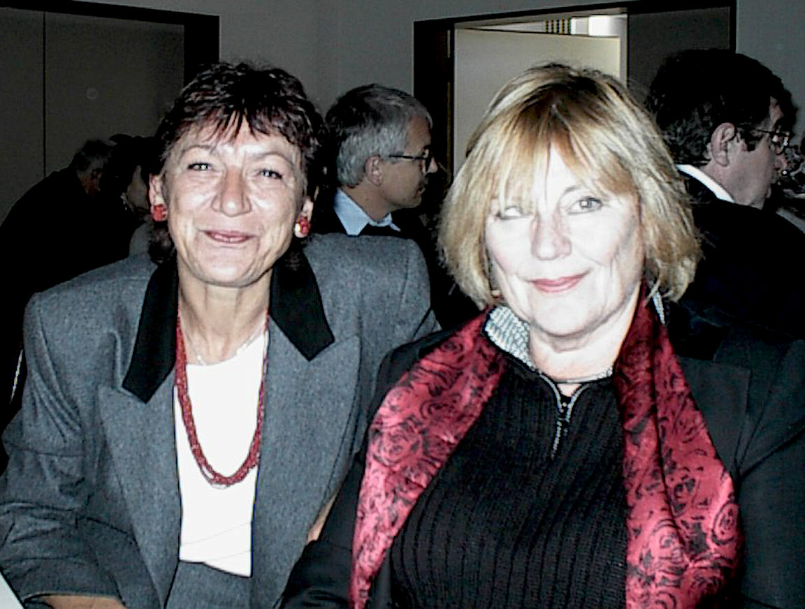 Mdb Uta Titze-Stecher (SPD) (right) together with Fürstenfeldbruck district Landrätin Rosemarie Grützner (SPD)